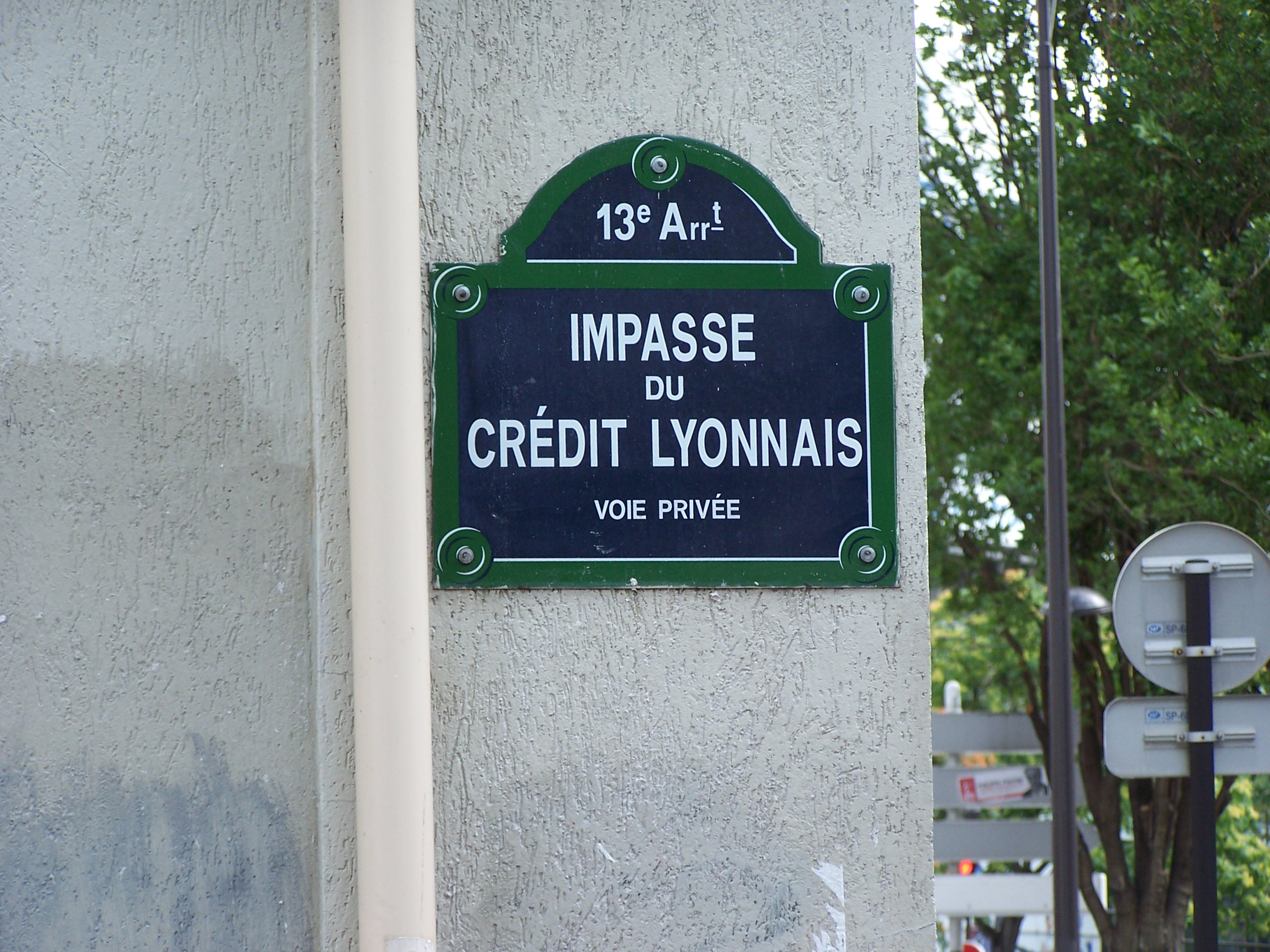 Plaque of the street